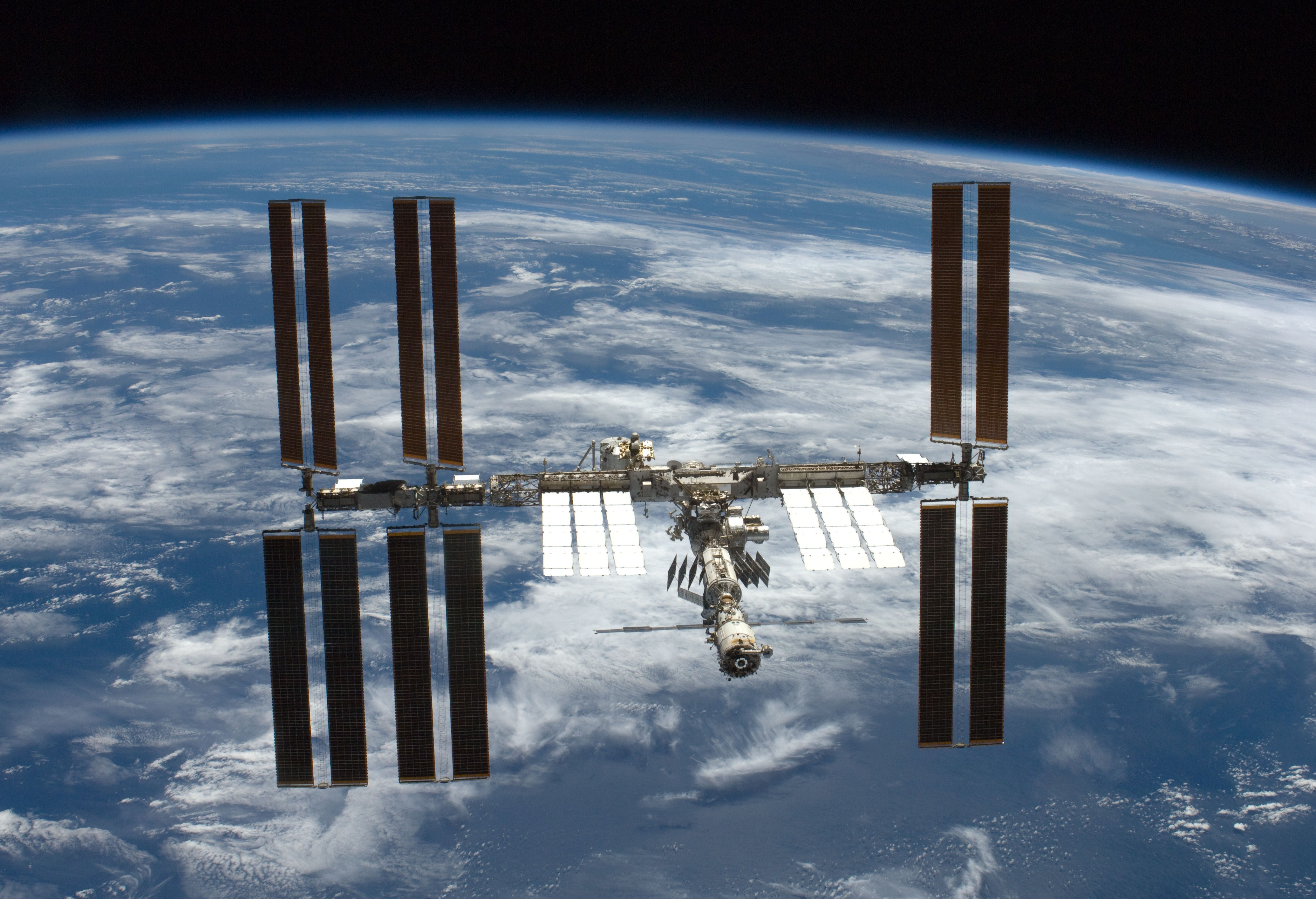 The International Space Station as seen from the departing Space Shuttle Endeavour on STS-126.